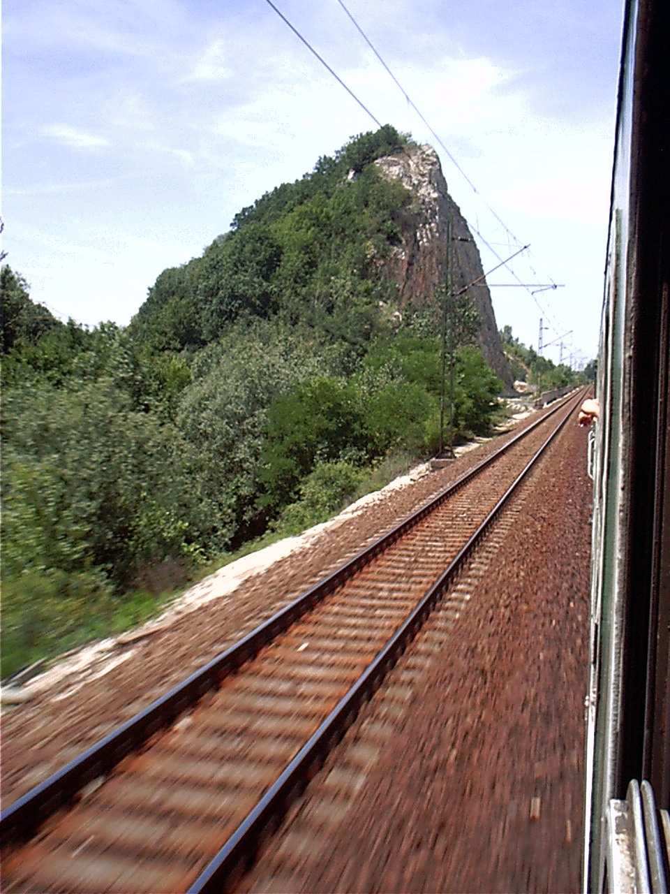 Train passing the Tatabánya Cutting